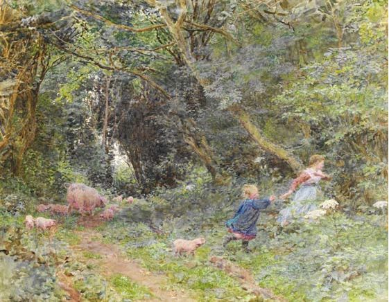 Watercolour painting probably inspired by the Thomas Hardy novel "Under the Greenwood Tree" (1872)